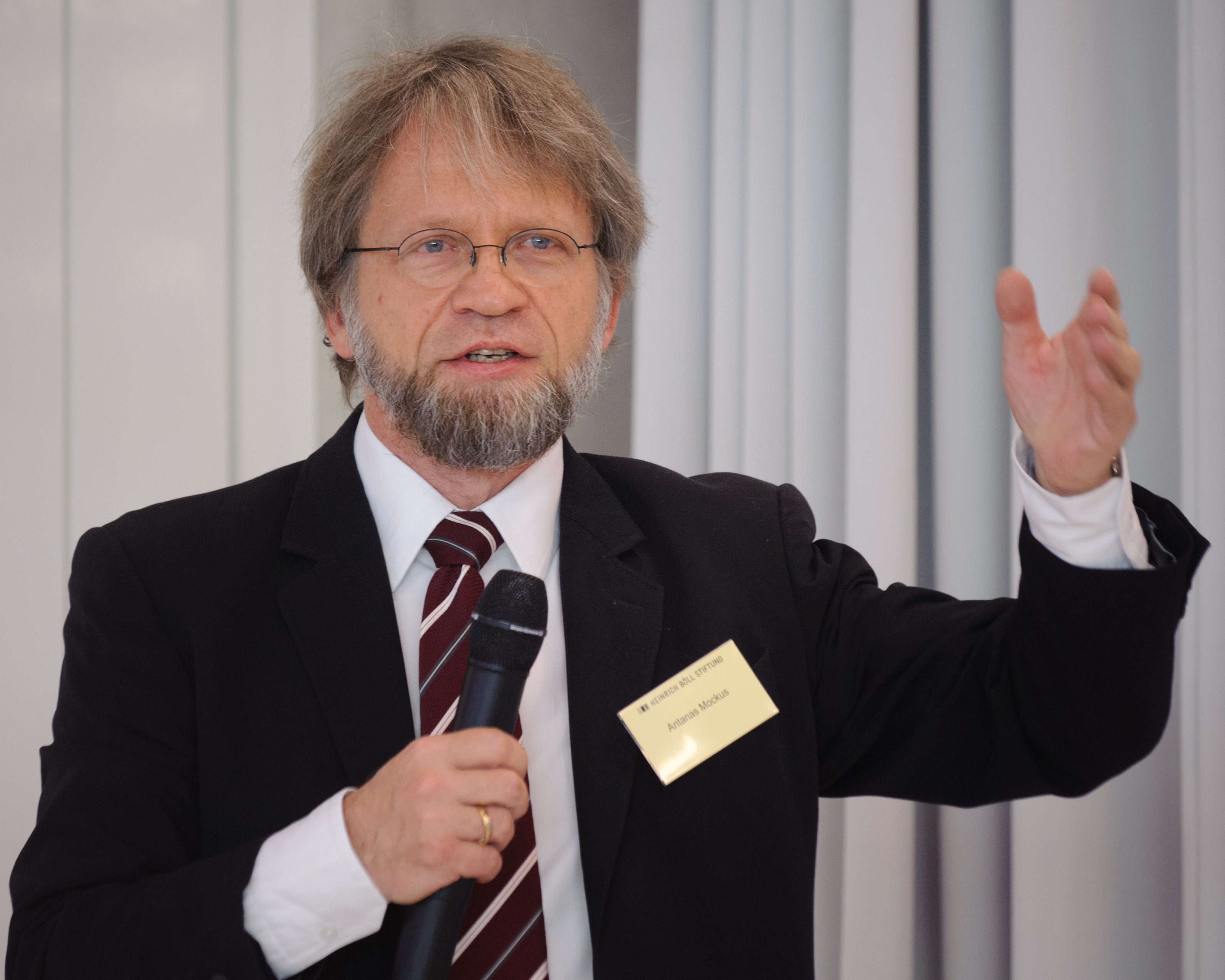 Antanas Mockus (Former mayor of Bogota, Colombia) radius of art - Konferenz Foto: Stephan Röhl